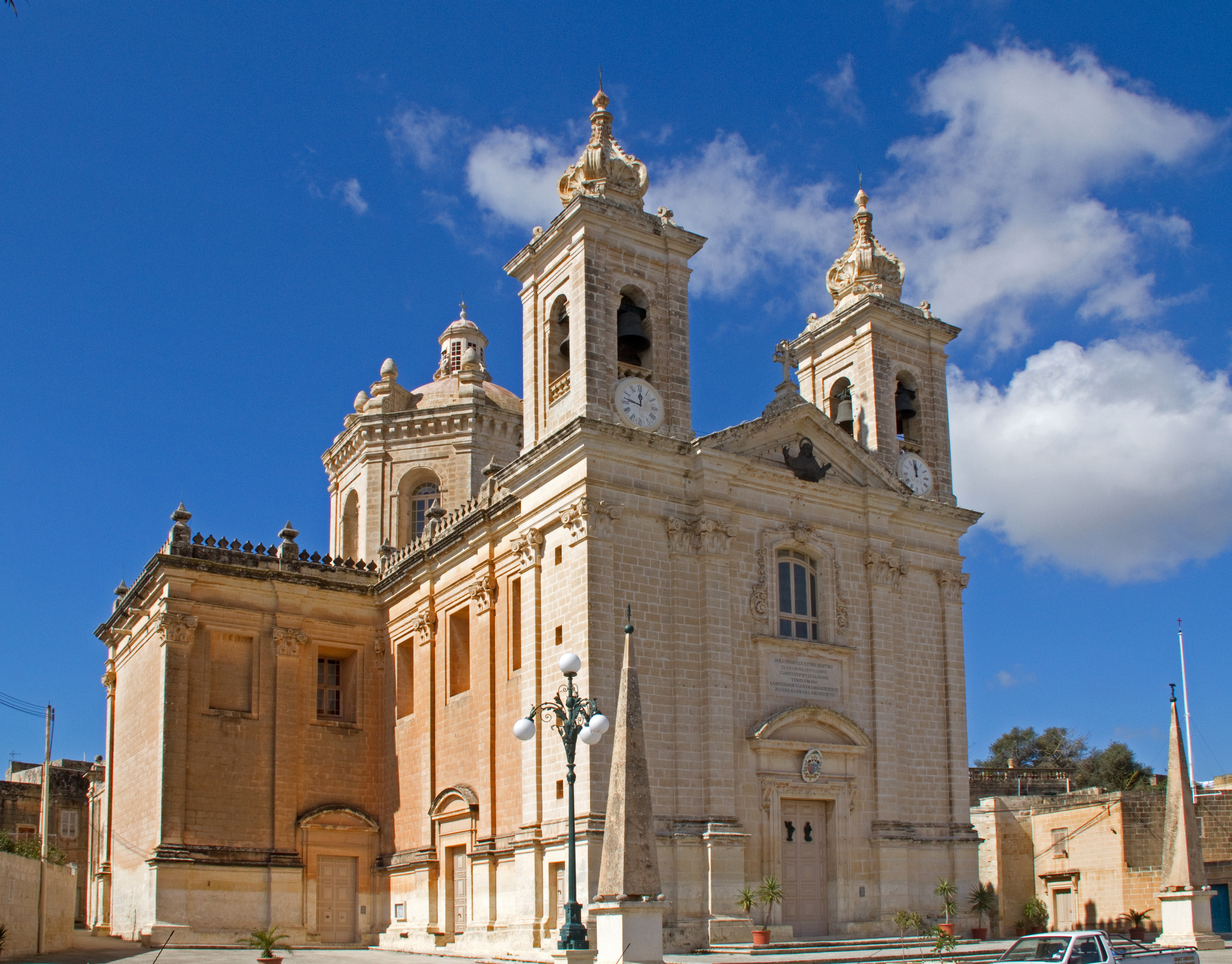 Church 3